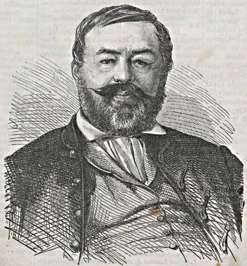 Portrait of József Torma